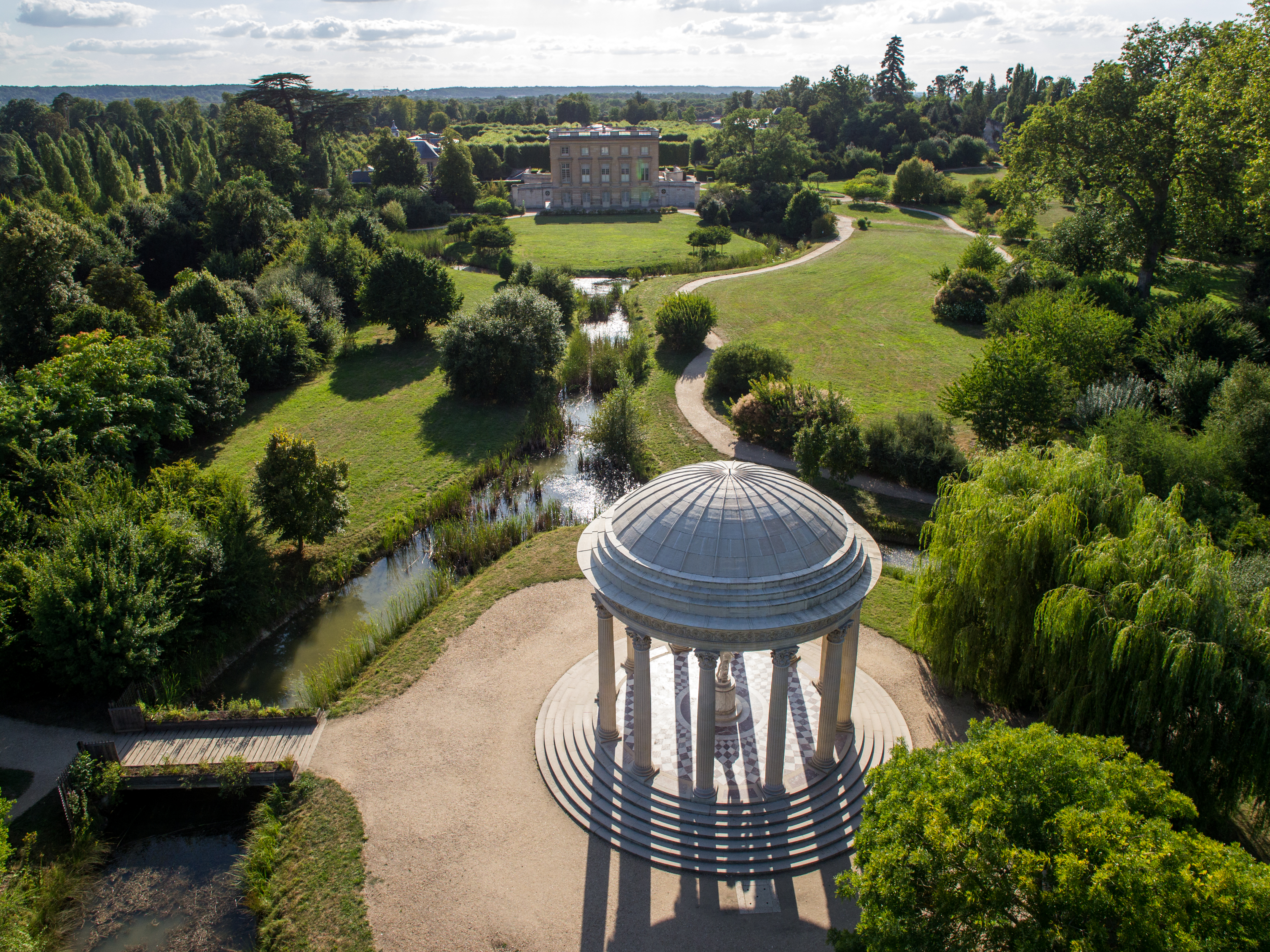 Aerial view of the Temple de l'Amour, in the Gardens of the Petit Trianon, Domain of Versailles, France